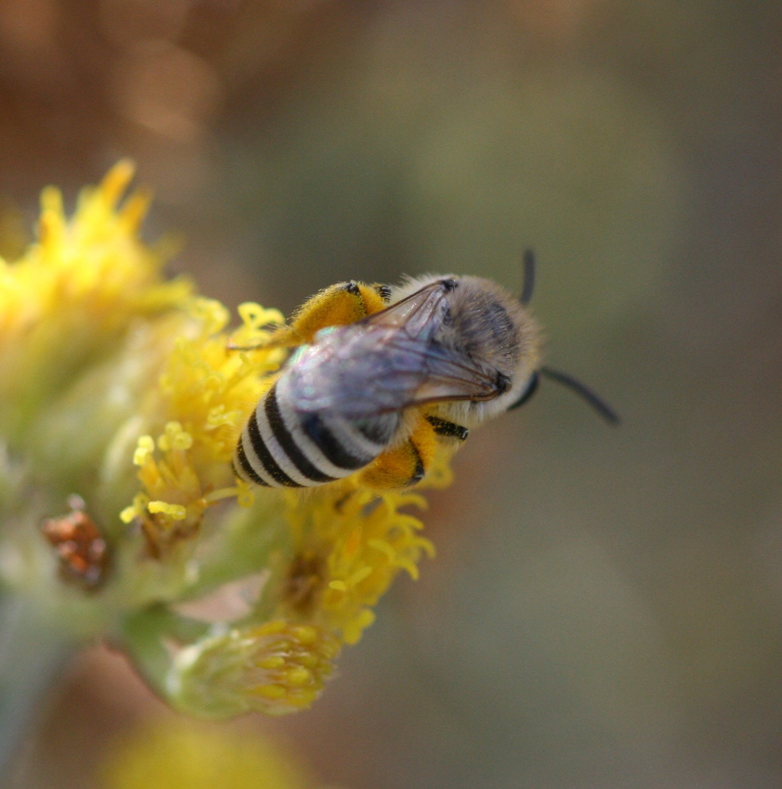 Colletes dimidiatus dimidiatus, Callao Salvaje, Tenerife.